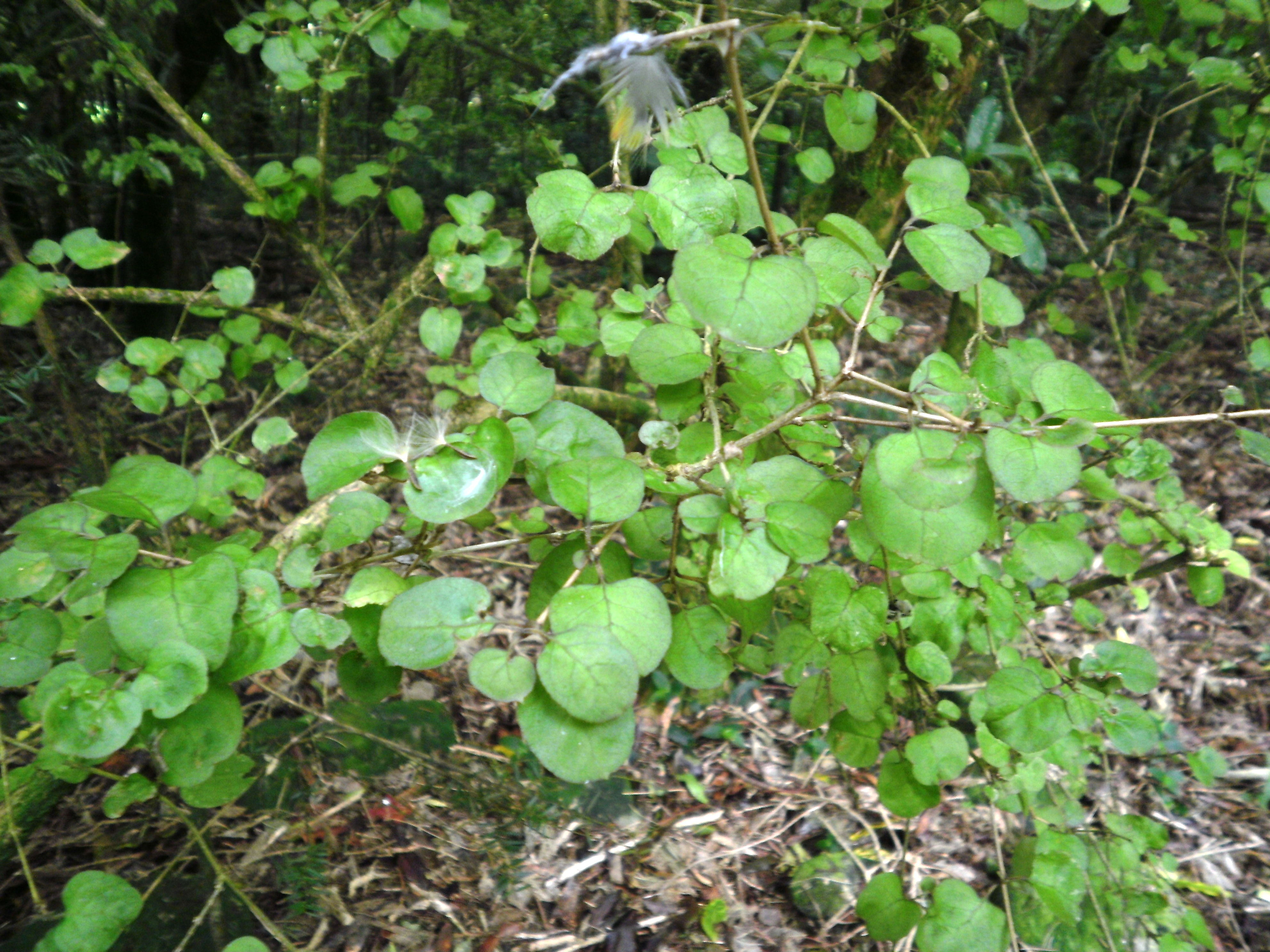 Coprosma rotundifolia at Harcourt Park, Upper Hutt, New Zealand.